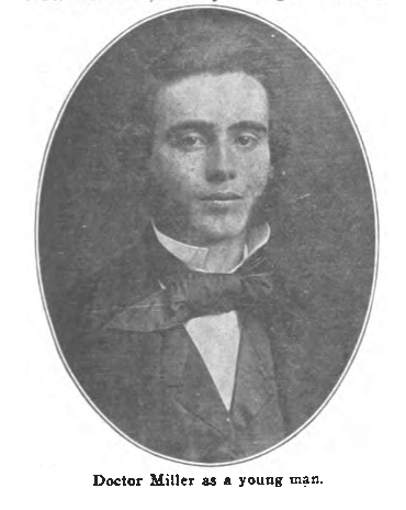 “The Nestor of American Beekeeping.” American Bee Journal, vol. 60, no. 10, Oct. 1920, p. 336. Retrieved May 3, 2018